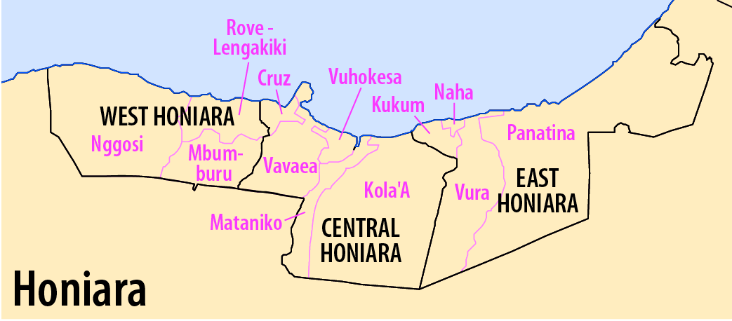 Map Administrative Divisions of Guadalcanal (Solomon Islands)